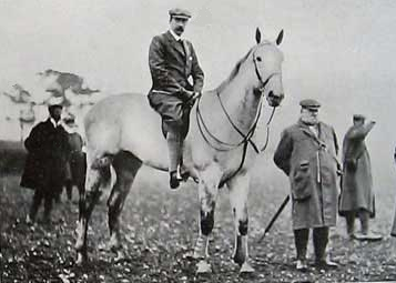 The Earl of Sefton (new Master of the Horse) (on horse), photographed with Mr Alexander (by horse's head)